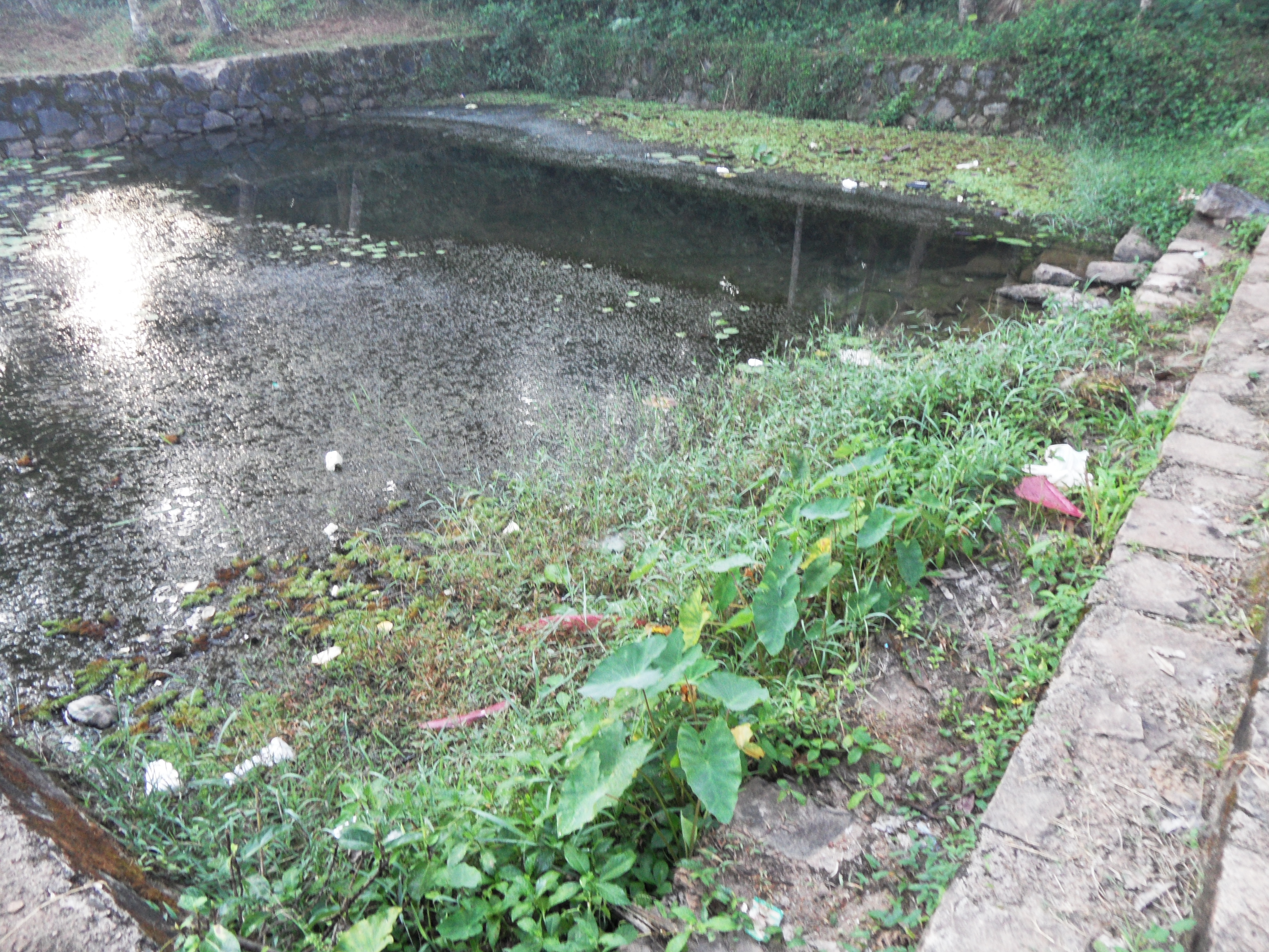 ഒറവില്‍ കുളം പാറക്കാട്